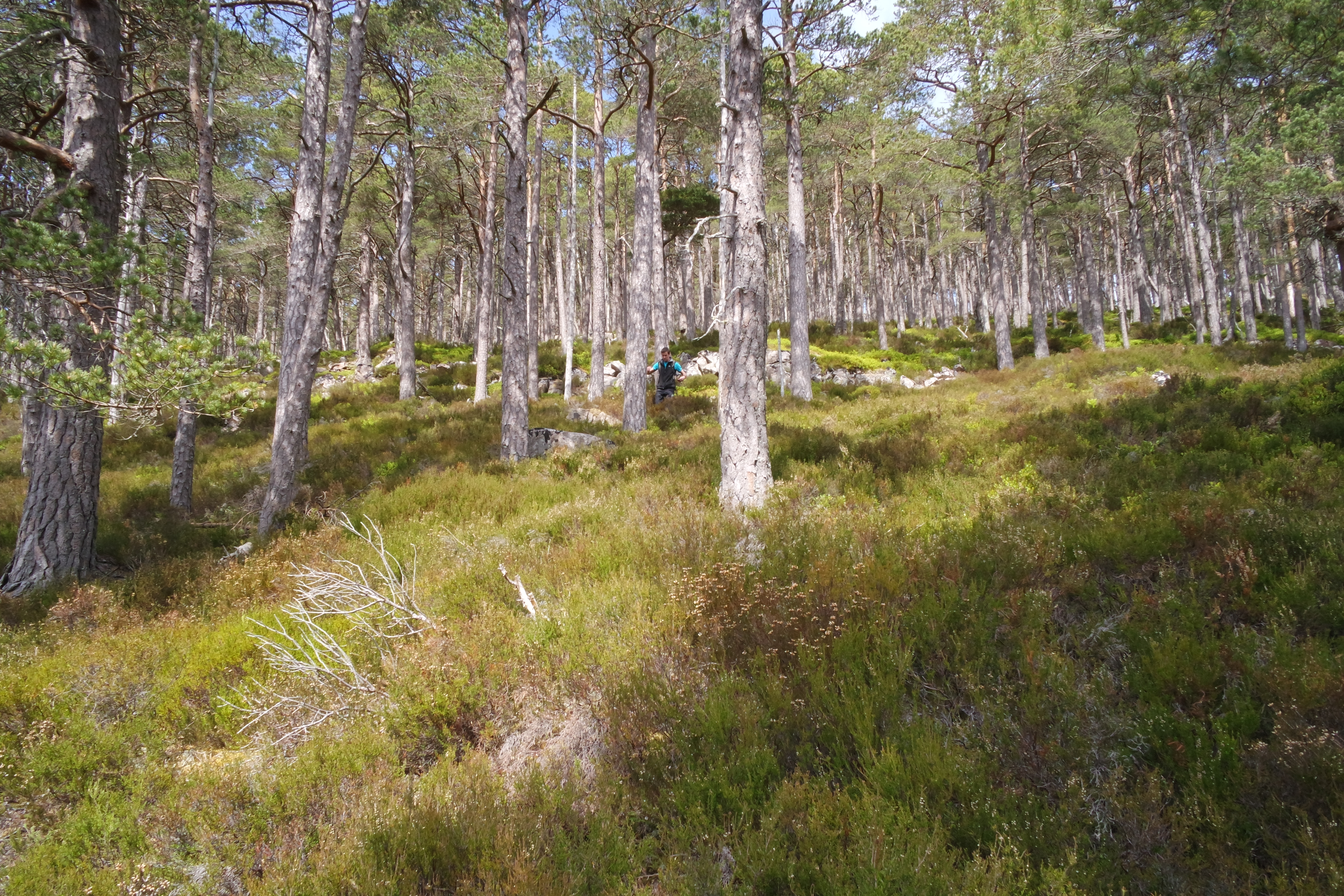 A picture of some woodland at Lagganlia in the Highlands of Scotland.